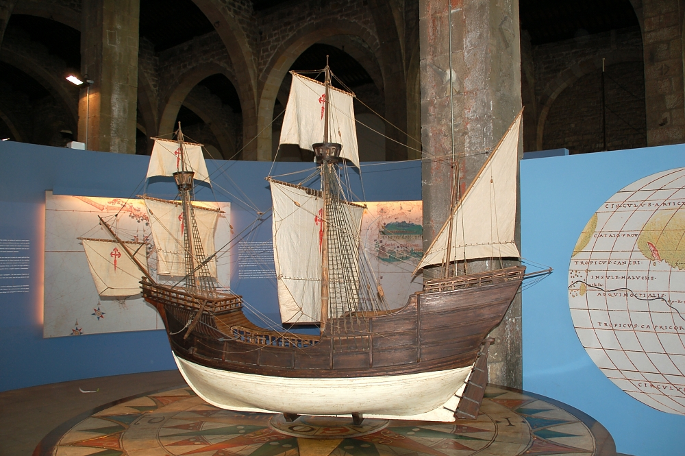 Museu Maritim, Barcelona, Spain